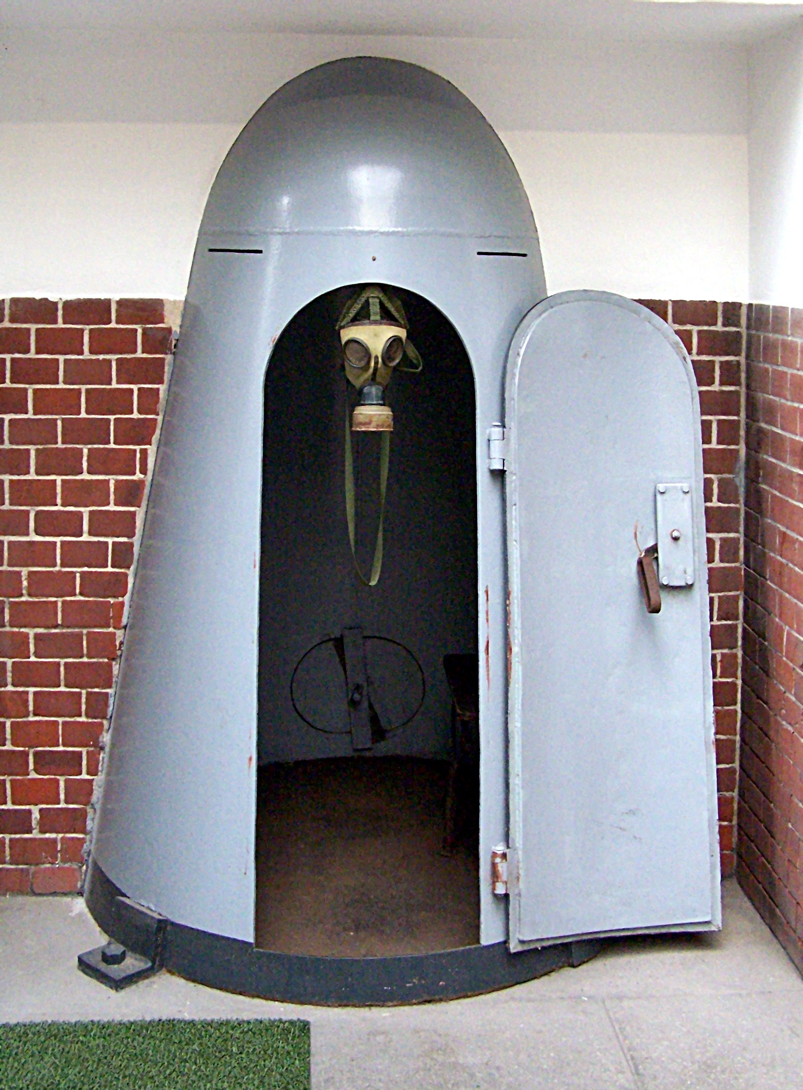 Shelter with gas mask and first-aid kit in the water works Hattersheim.